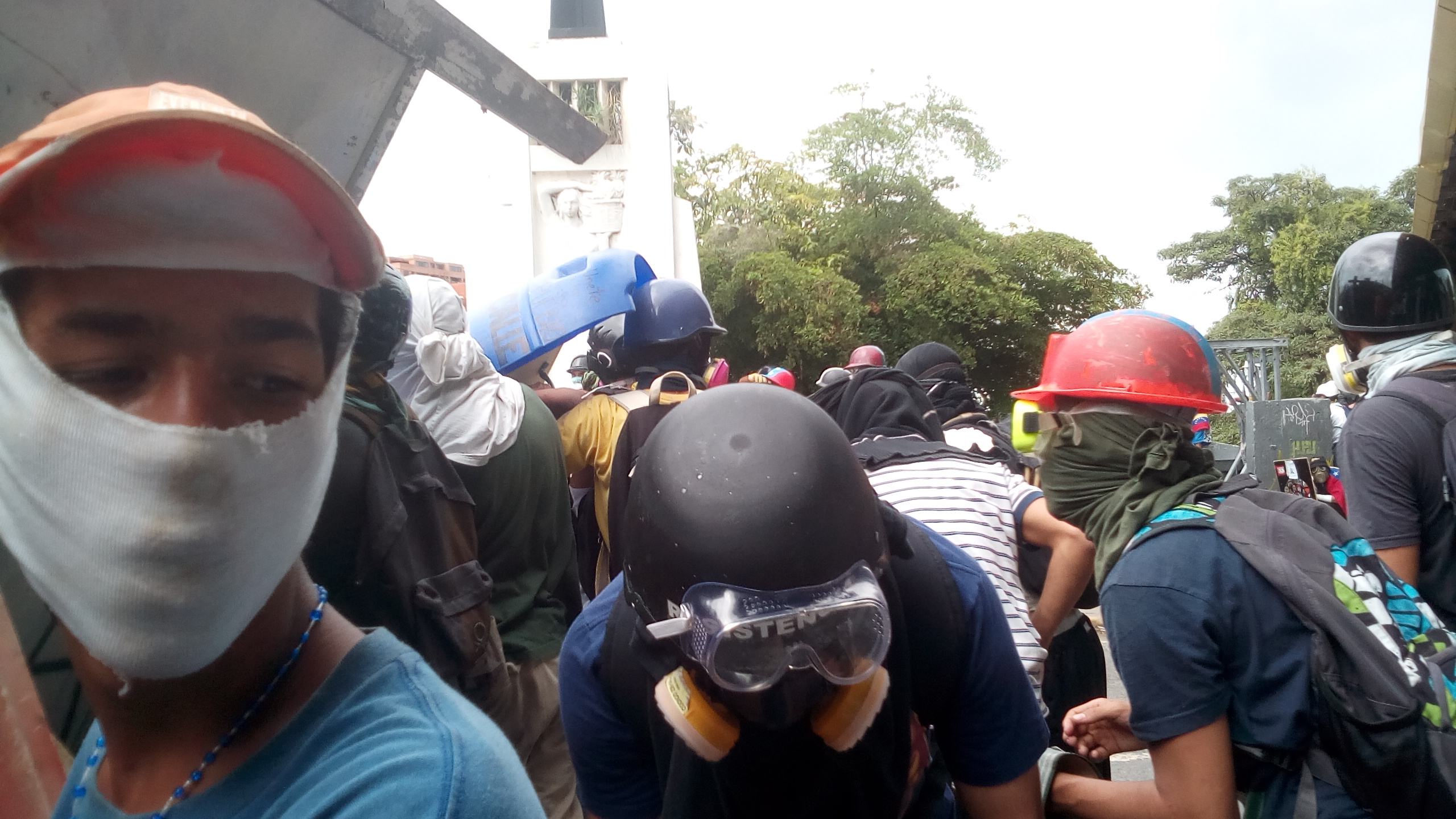 Protestantes se enfrentan a la GNB en el puente de Las Mercedes el 7 de junio de 2017 en Caracas, Venezuela.